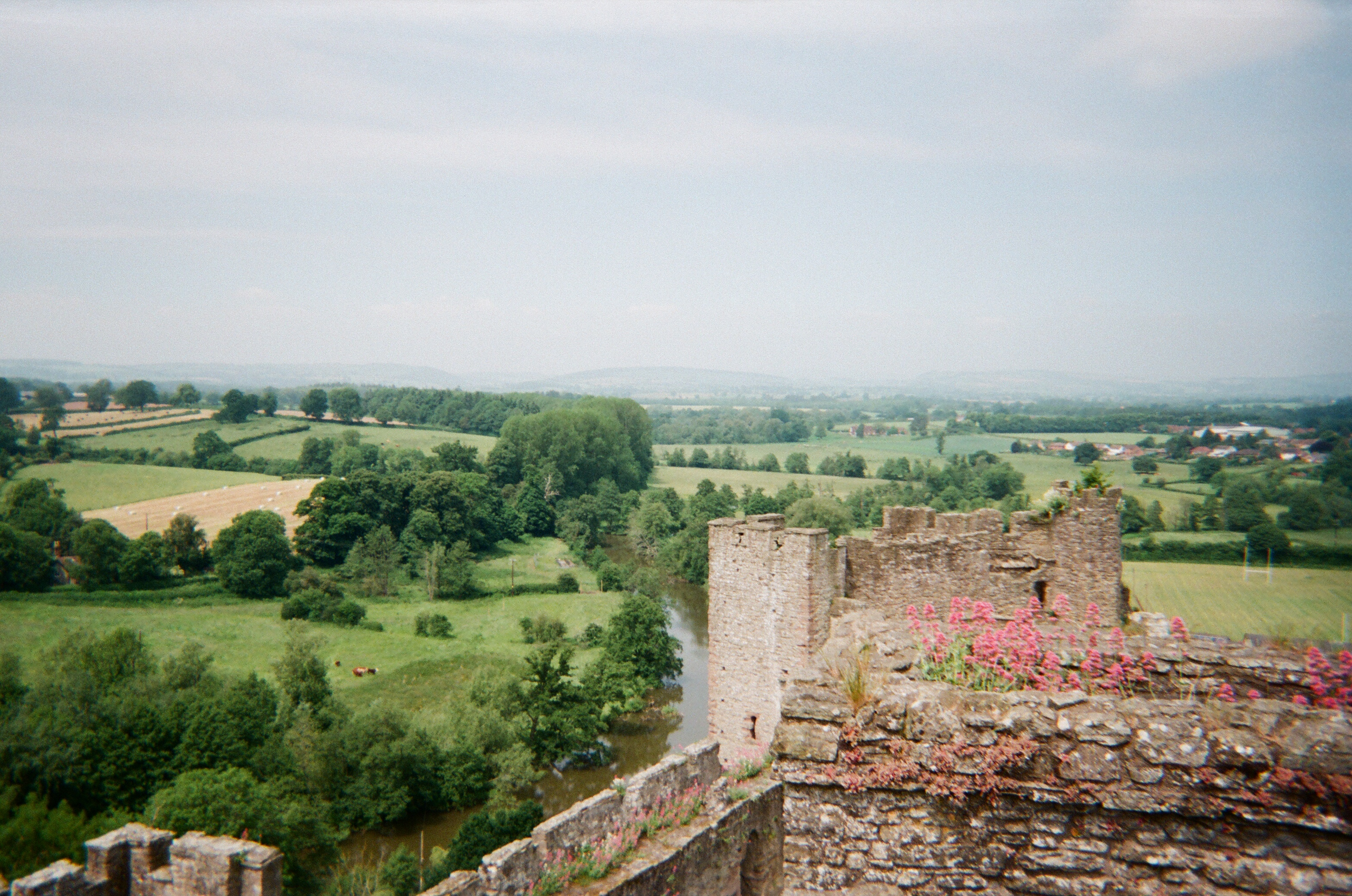 Prince Arthur’s Tower in Ludlow Castle, seen from the keep